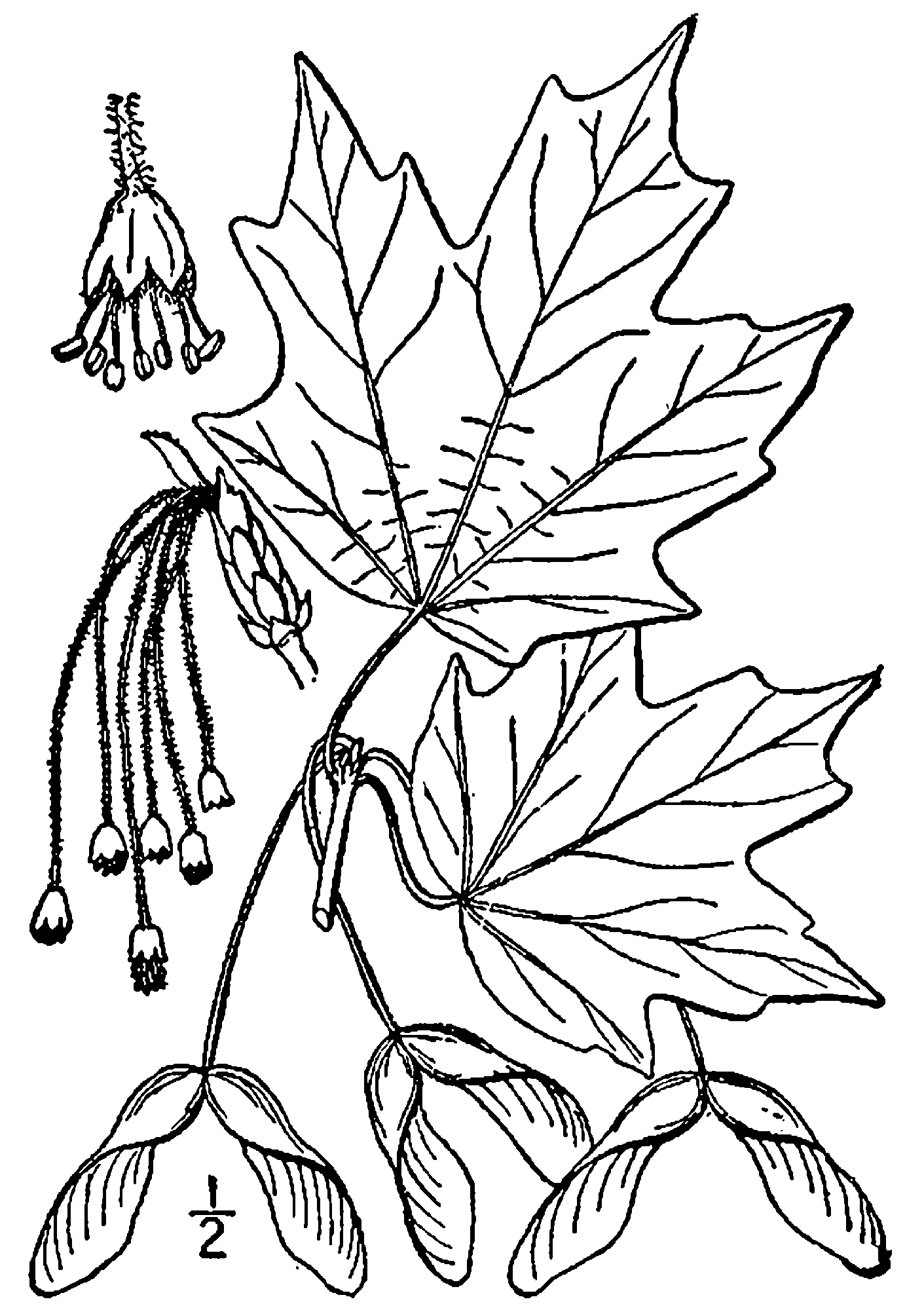 Sugar Maple. Drawing.